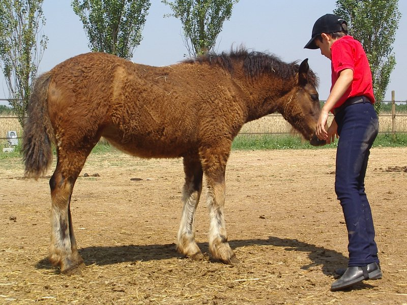 Bardigiano horse_foal